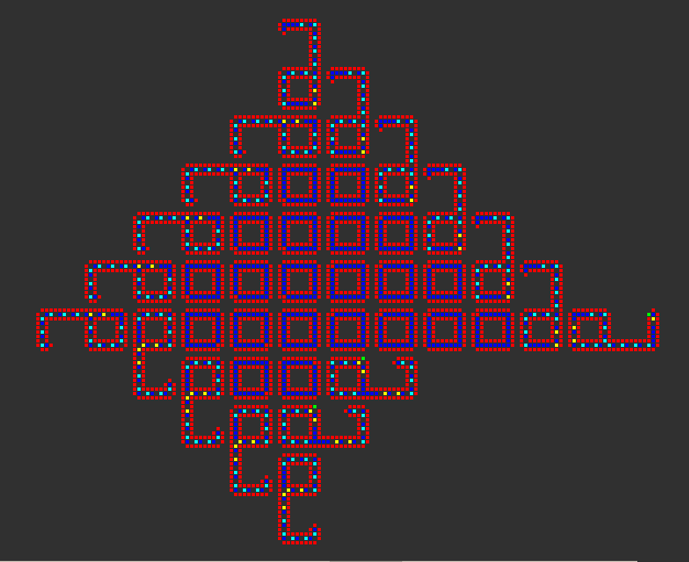 A colony of Langton's Loops, after 972 timesteps.